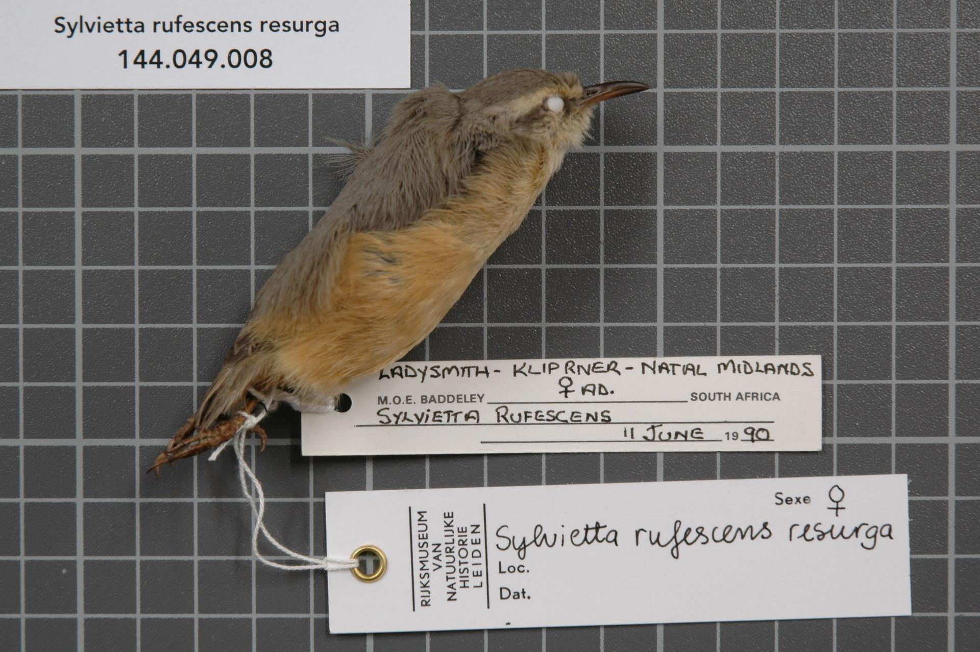 Sylvietta rufescens resurga Clancey, 1953